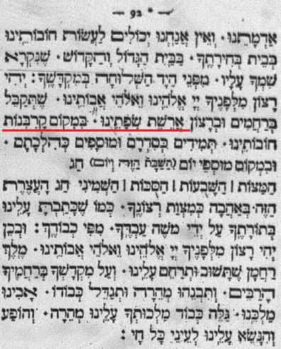 A retouched copy of File:Musaf for Yom Kippur.pdf (originally published 1818), page 2.